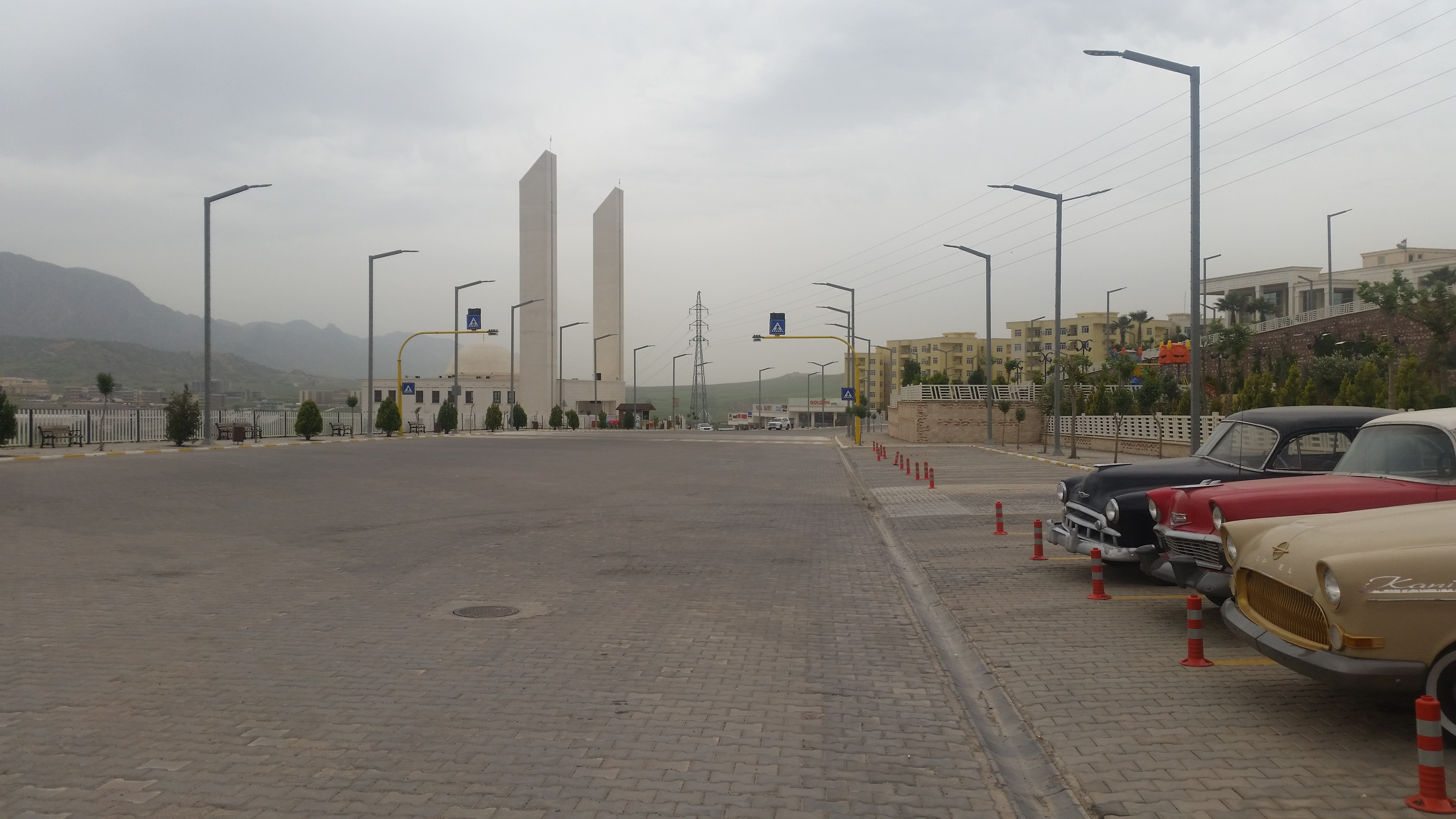 New Zakho